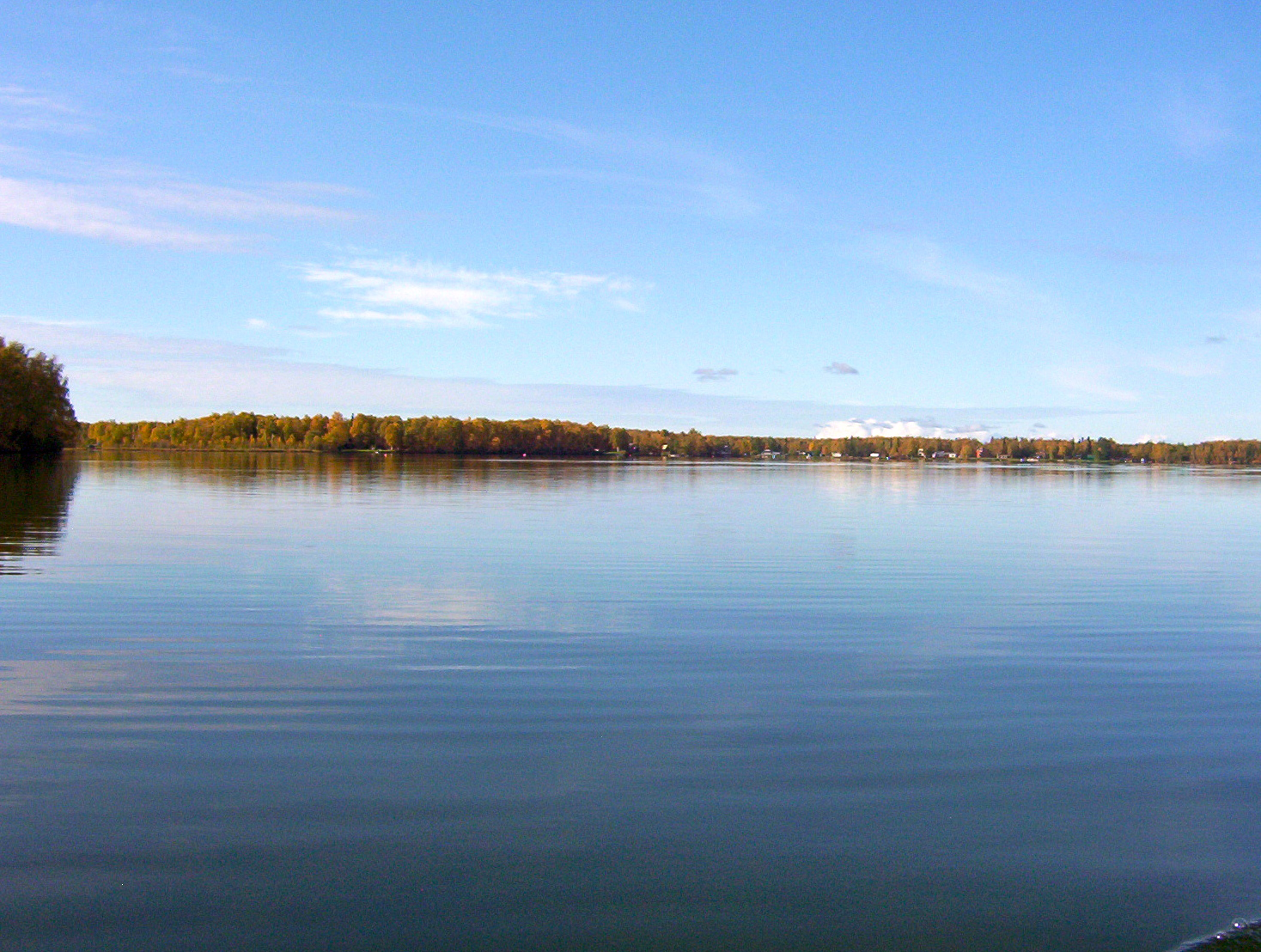 long view of Lake Lucille, Wasilla Category:Images of Alaska